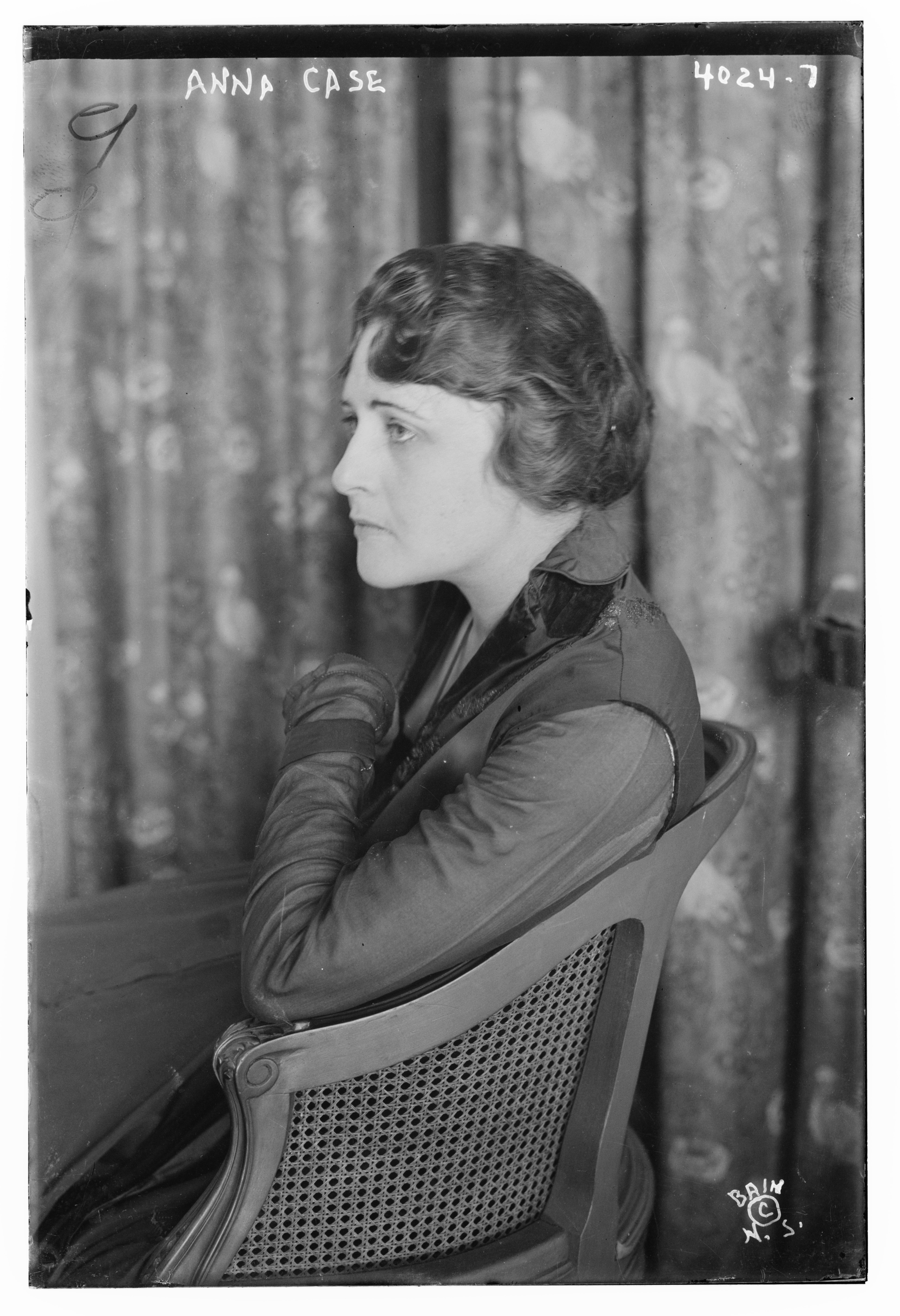 Anna Case in 1917